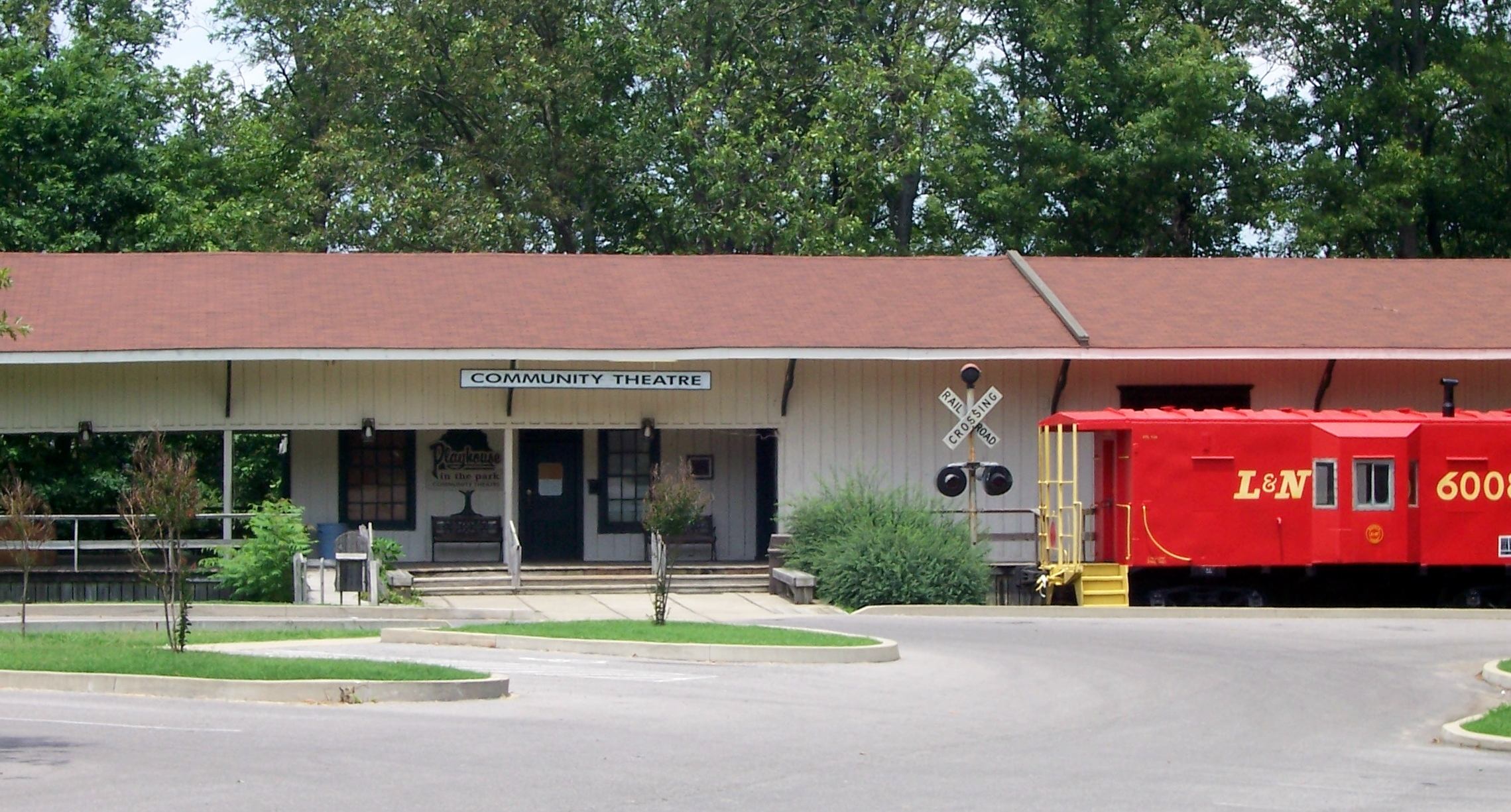 Calloway County, Kentucky